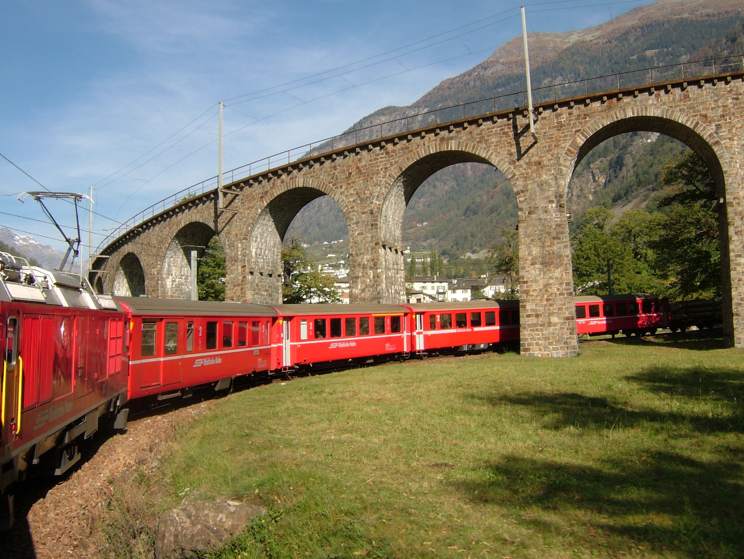 Bernina railwaySouthbound local train between Poschiavo and Tirano at Brusio spiral viaductFreight carriages are often coupled to passenger trains due to the low capacity of the single track line, here one of the numerous loggings to Italy.